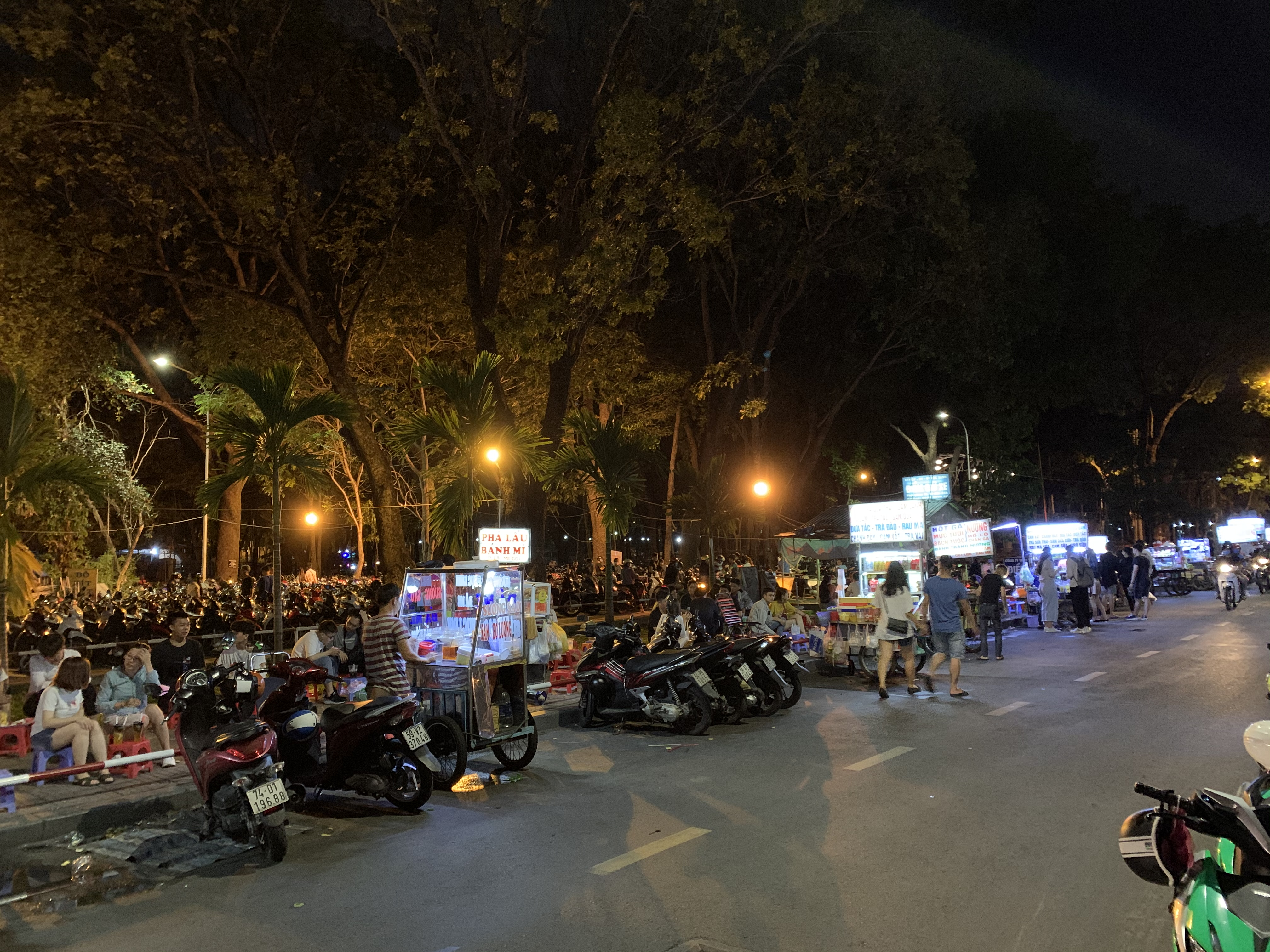 Gia Dinh park at night